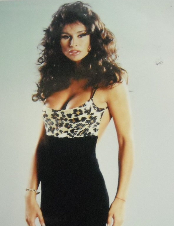 Mónica Guido- actriz argentina